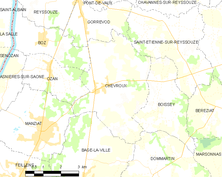 Map of French commune: Chevroux Map commune FR insee code 01102.png